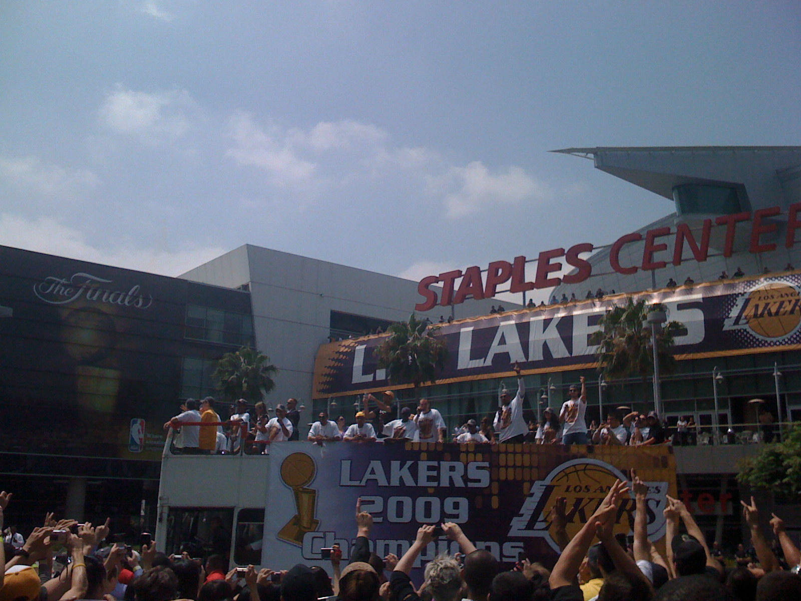 Parade celebrating the 2009 NBA Champions Los Angeles Lakers. Parade was on June 17 2009.